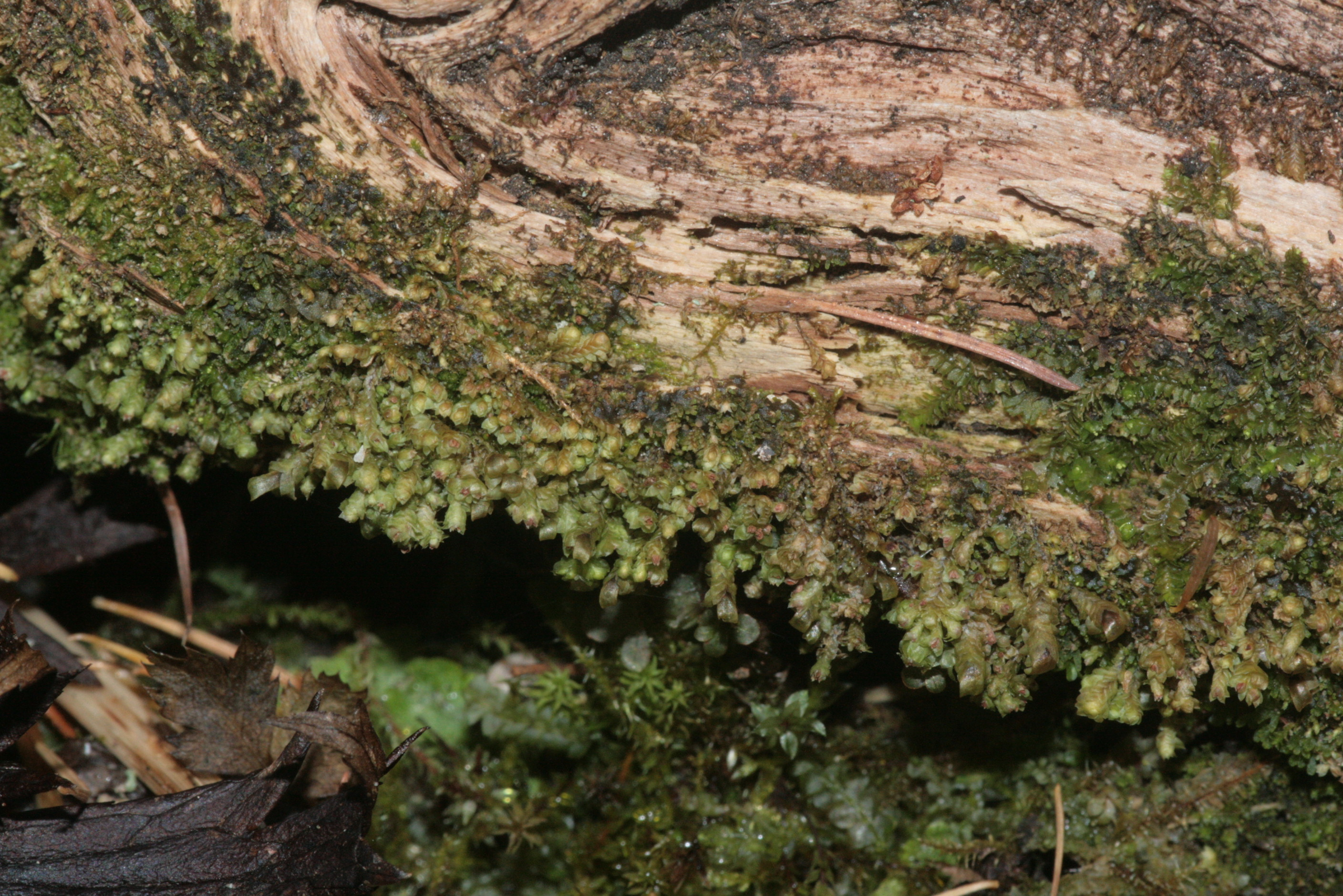 Scapania umbrosa